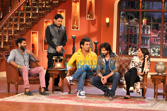 Shahid Kapoor, Sonakshi Sinha, Sonu Sood, Prabhudeva, Kapil Sharma on the sets of Comedy Nights with Kapil promoting their 2013 film R... Rajkumar.